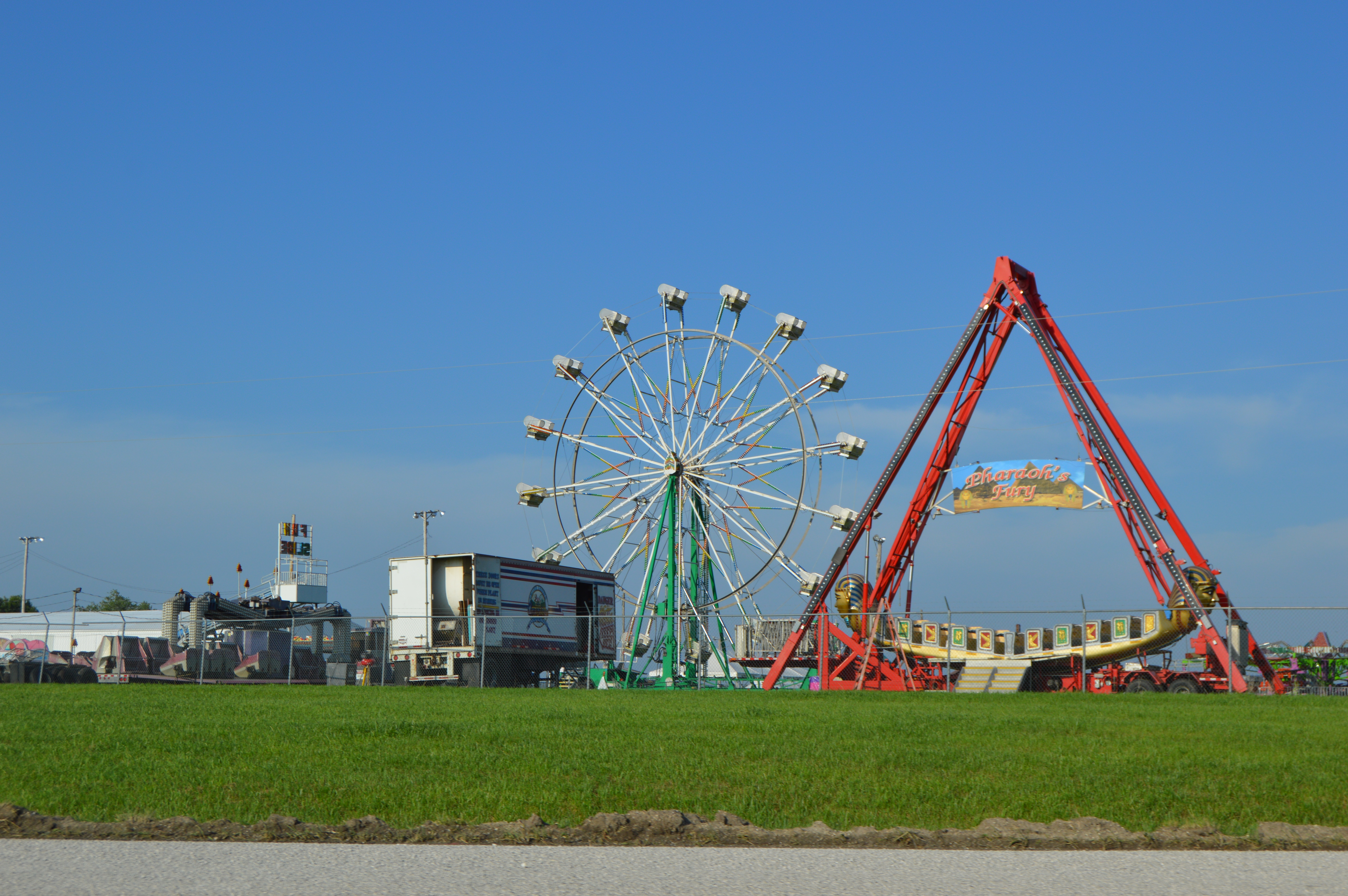 Rides newly set up at the Adams County Fairgrounds, located outside Quincy off Illinois Route 110 in Mendon Township, Adams County, Illinois, United States. Workers were actively setting up attractions, as the fair began one day later.